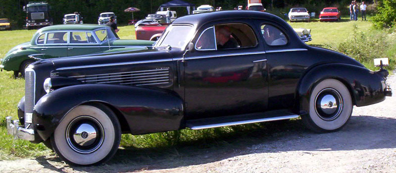 LaSalle Series 38-5027 Coupe 1938